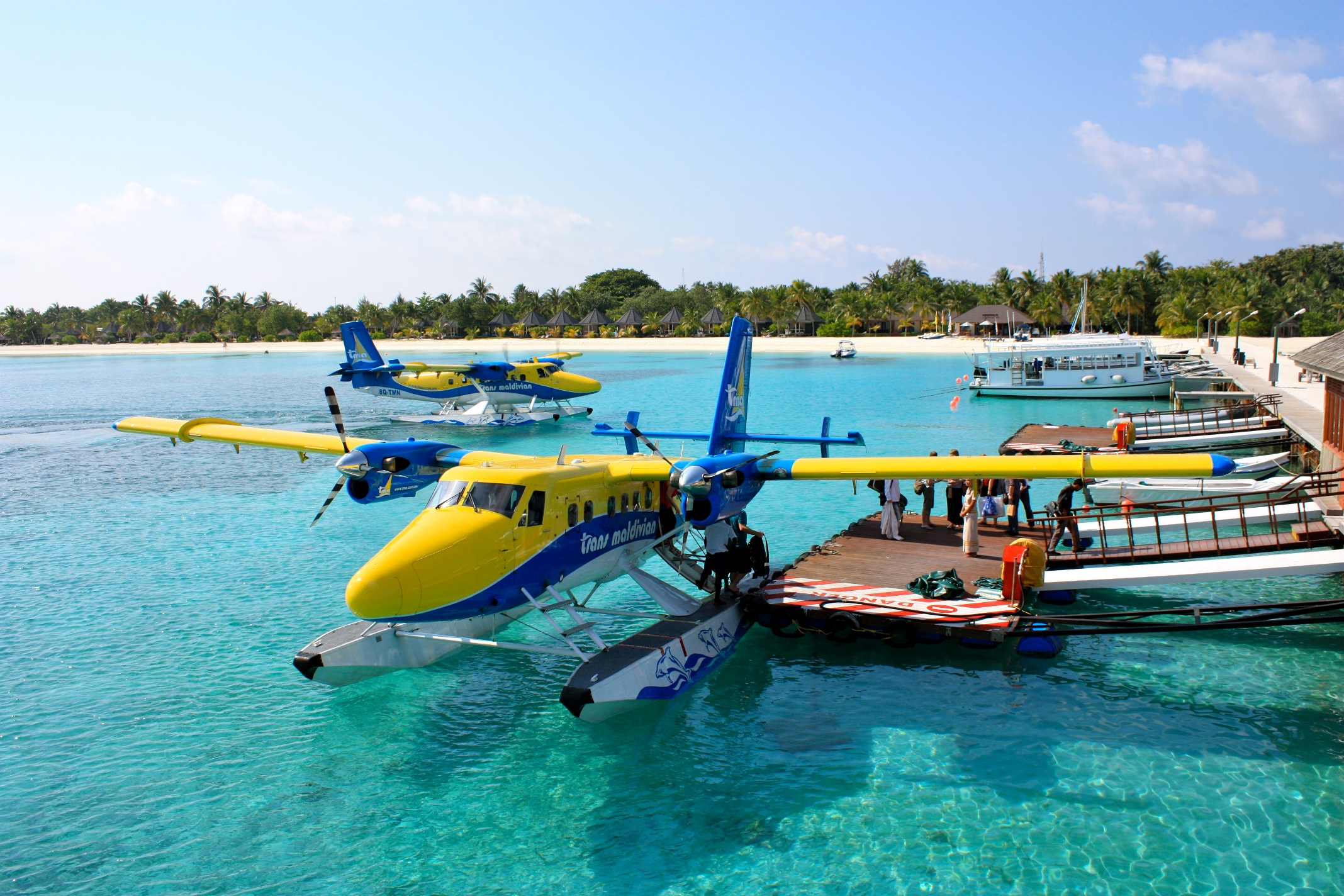 Aircraft at Kuredu Island Resort